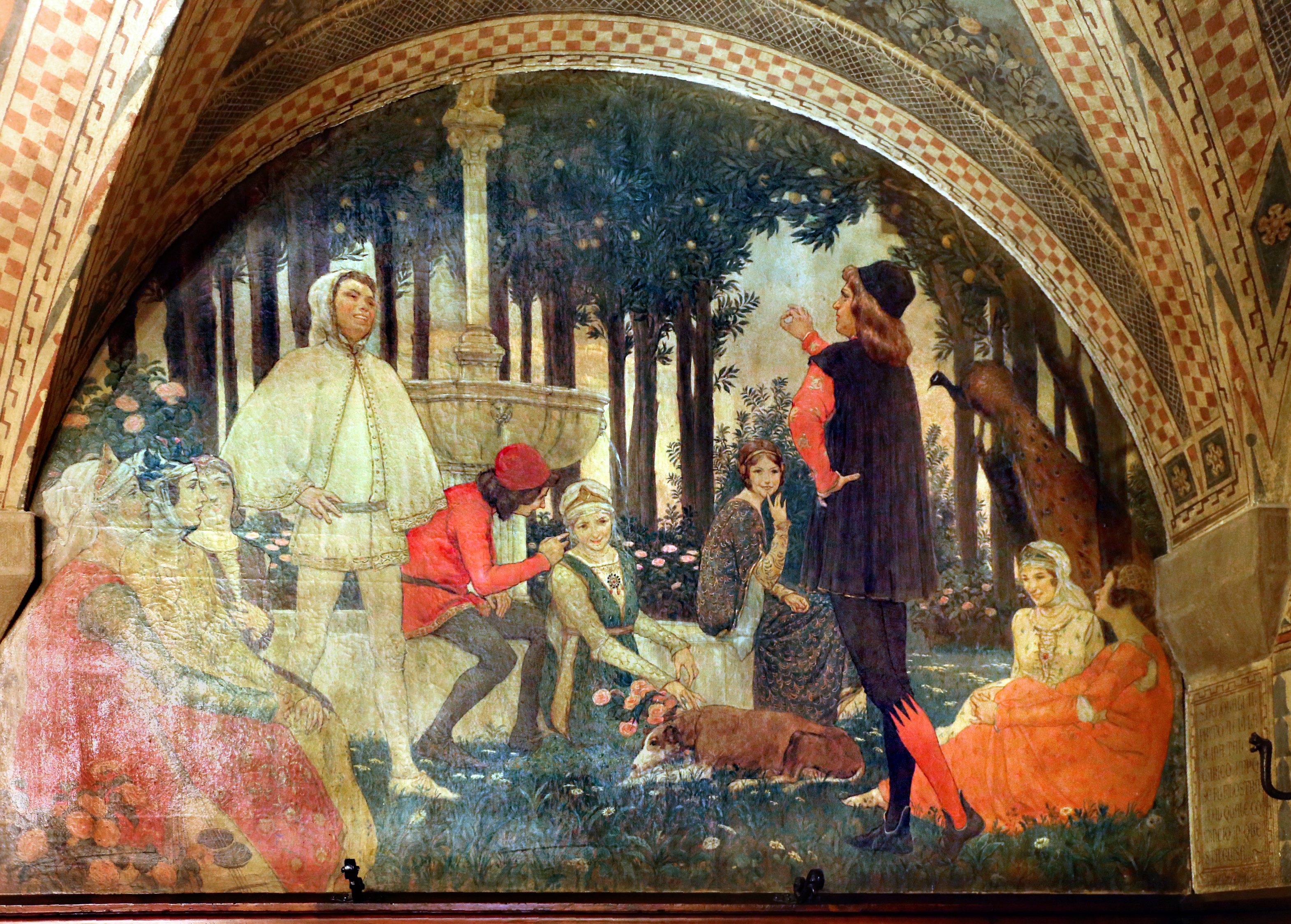 Paoli Restaurant (Florence)